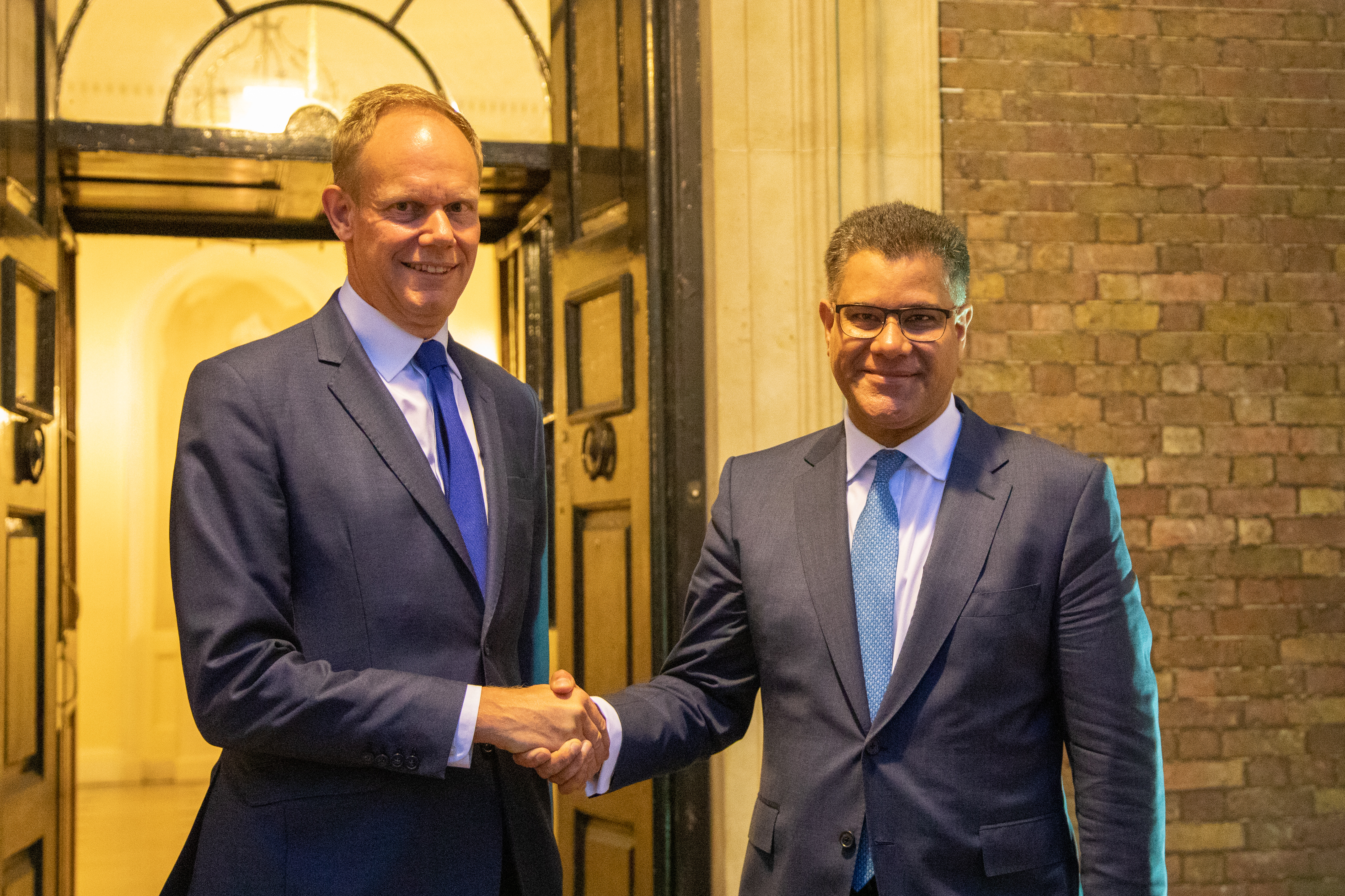 Newly appointed Secretary of State for International evelopment Alok Sharma MP is greeted on arrival at DFID by Permanent Secretary Matthew Rycroft.